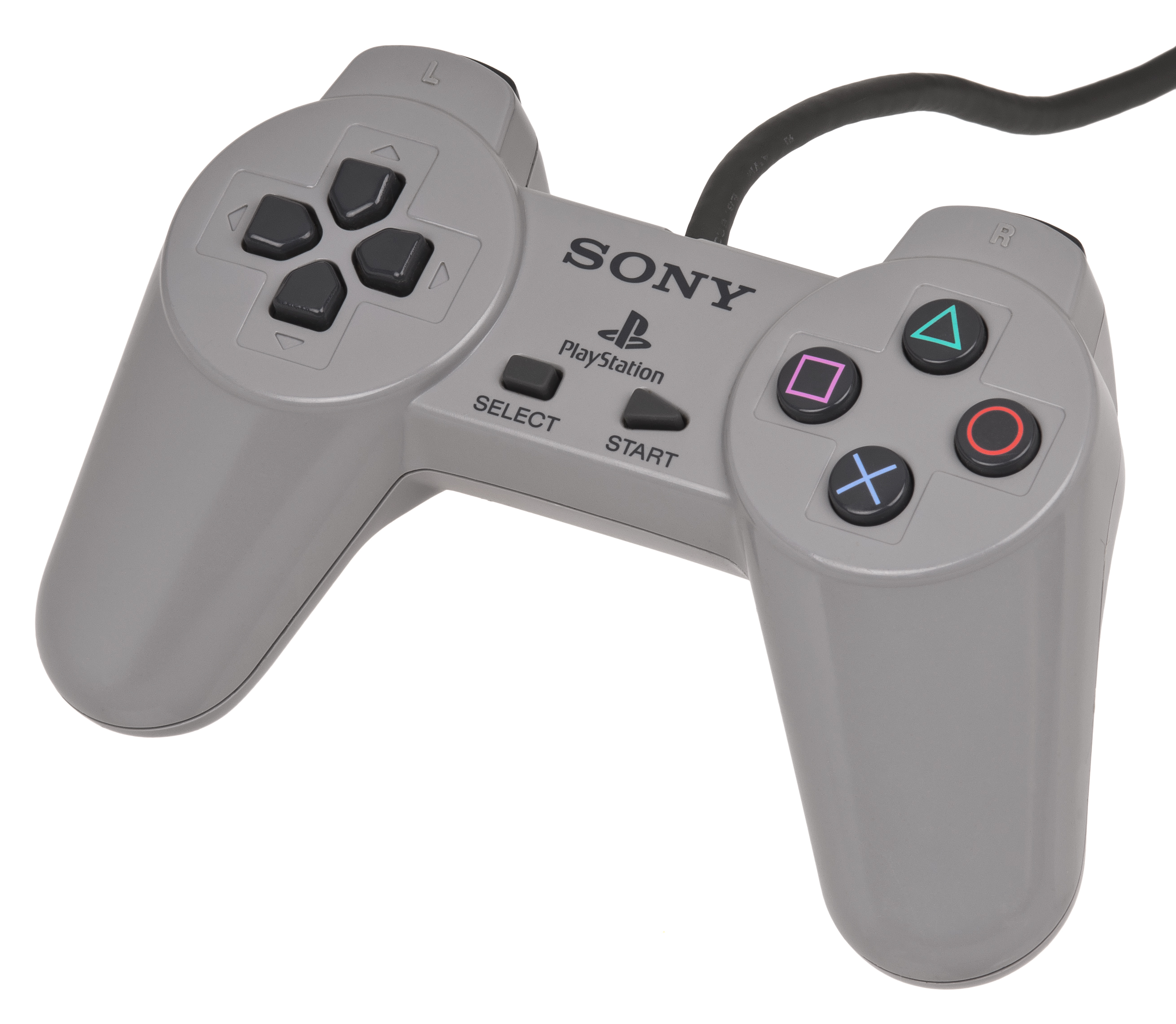 An original Sony PlayStation controller. The first controller released for the PlayStation and packed in with the system until it was replaced by the DualShock.